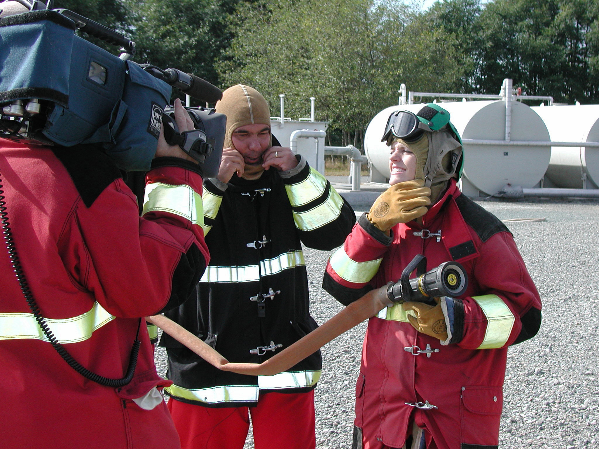 Naval Air Station Whidbey Island, Wash. (Aug. 26, 2002) -- Reporter Jill Cordes of the Food Network gets ready to put out a mock shipboard fire at the Naval Air Station Whidbey Island, Wash., under the supervision of Chief Aviation Boatswain's Mate Larry Jones (center) and his two fire fighting teams. Her cameraman is there to record the event. The Food Network will spotlight the Fire School at Whidbey Island for an upcoming feature on "The Best of Military Eats." Their salute to the military will air early next year and will include visits to Columbus Air Force Base, Miss., and Ft. Hood, Tex. Whidbey's Fire School trains over 2,800 Sailors a year from U.S. Navy bases in the Northwest region. U.S. Navy photo by Tony Popp. (RELEASED)